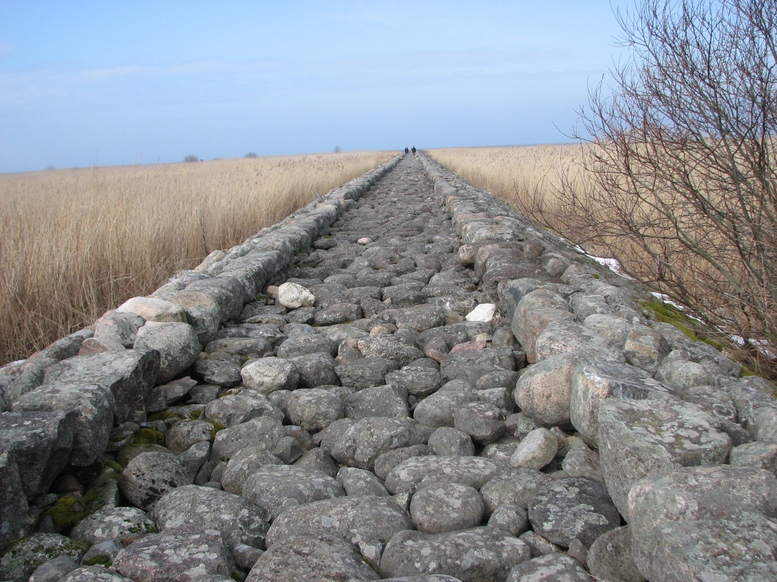 North Pier, Ainaži, Latvia